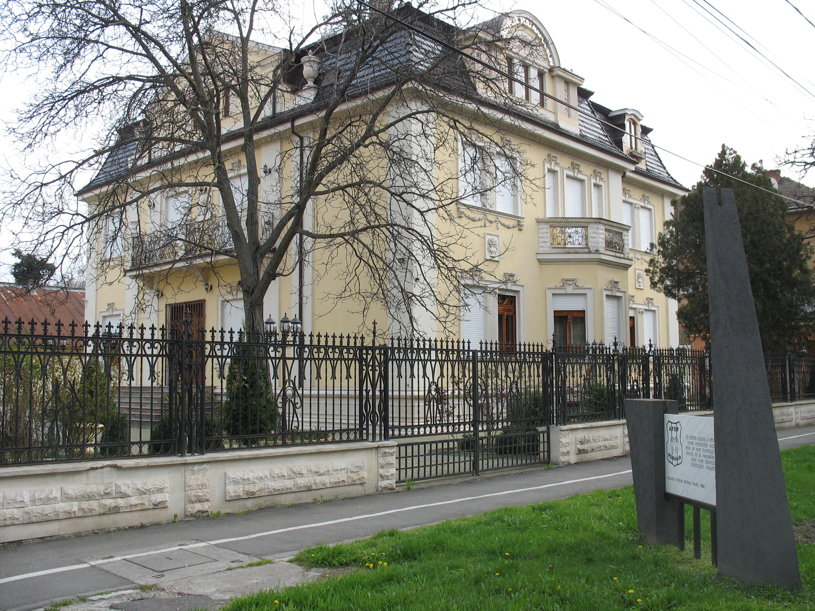 One of the houses on the C.D. Loga street, Timisoara, that were used as detention and interrogation places by the Romanian Secret Police during the communist era. A commemorative plaque stand in front of the house.